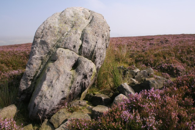 Glacial erratic, Midgley Moor. Looking southeast. Glacial erratic at SE 018 284.